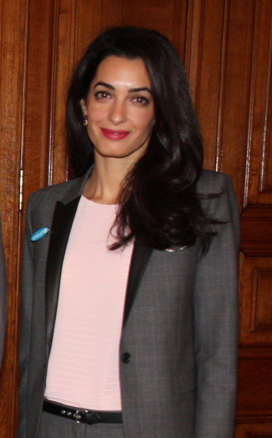 Amal Clooney, meeting with Foreign Secretary William Hague in London, 27 May 2014.